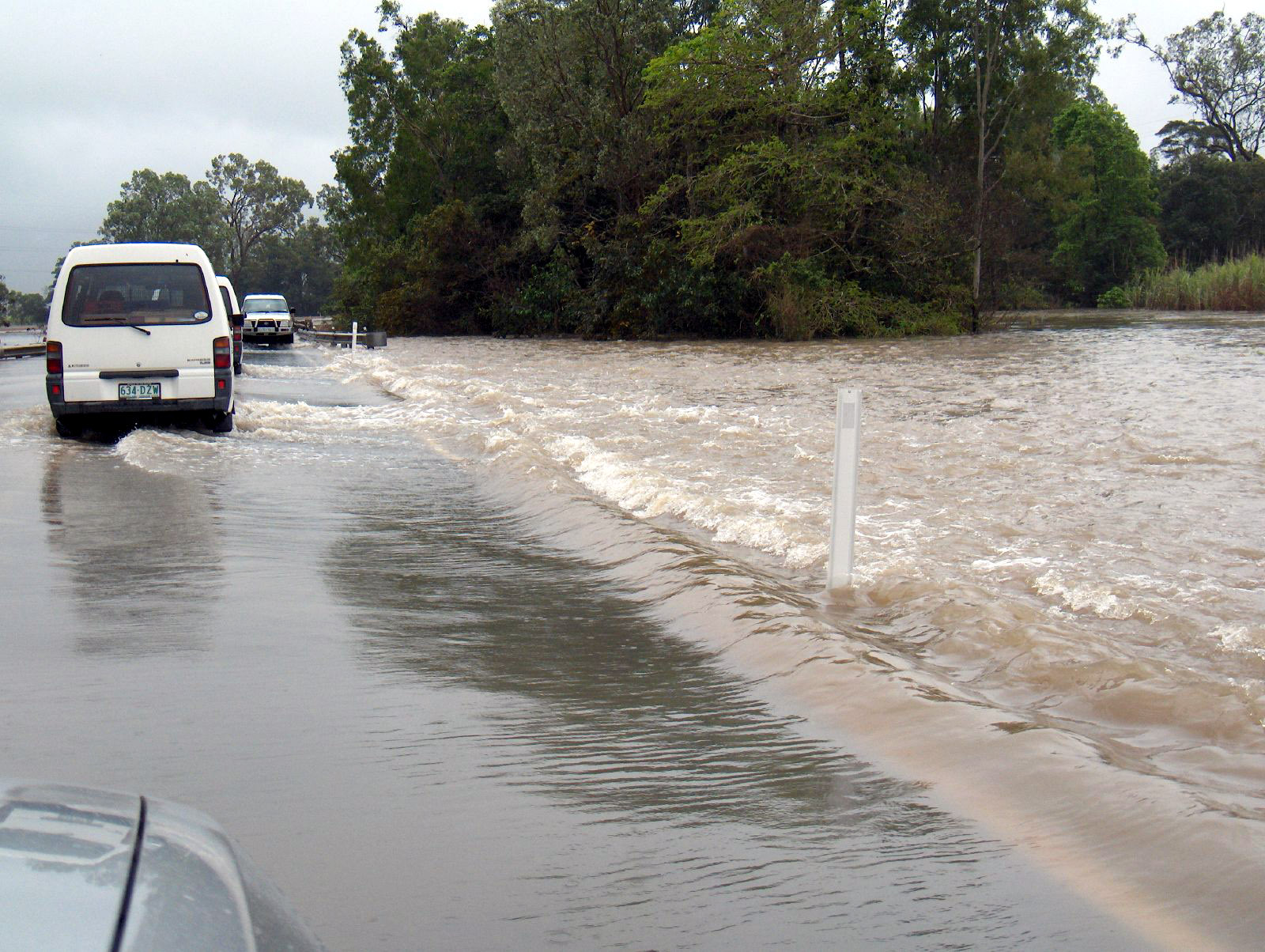 Rainy season - Cairns, Queensland, Australia